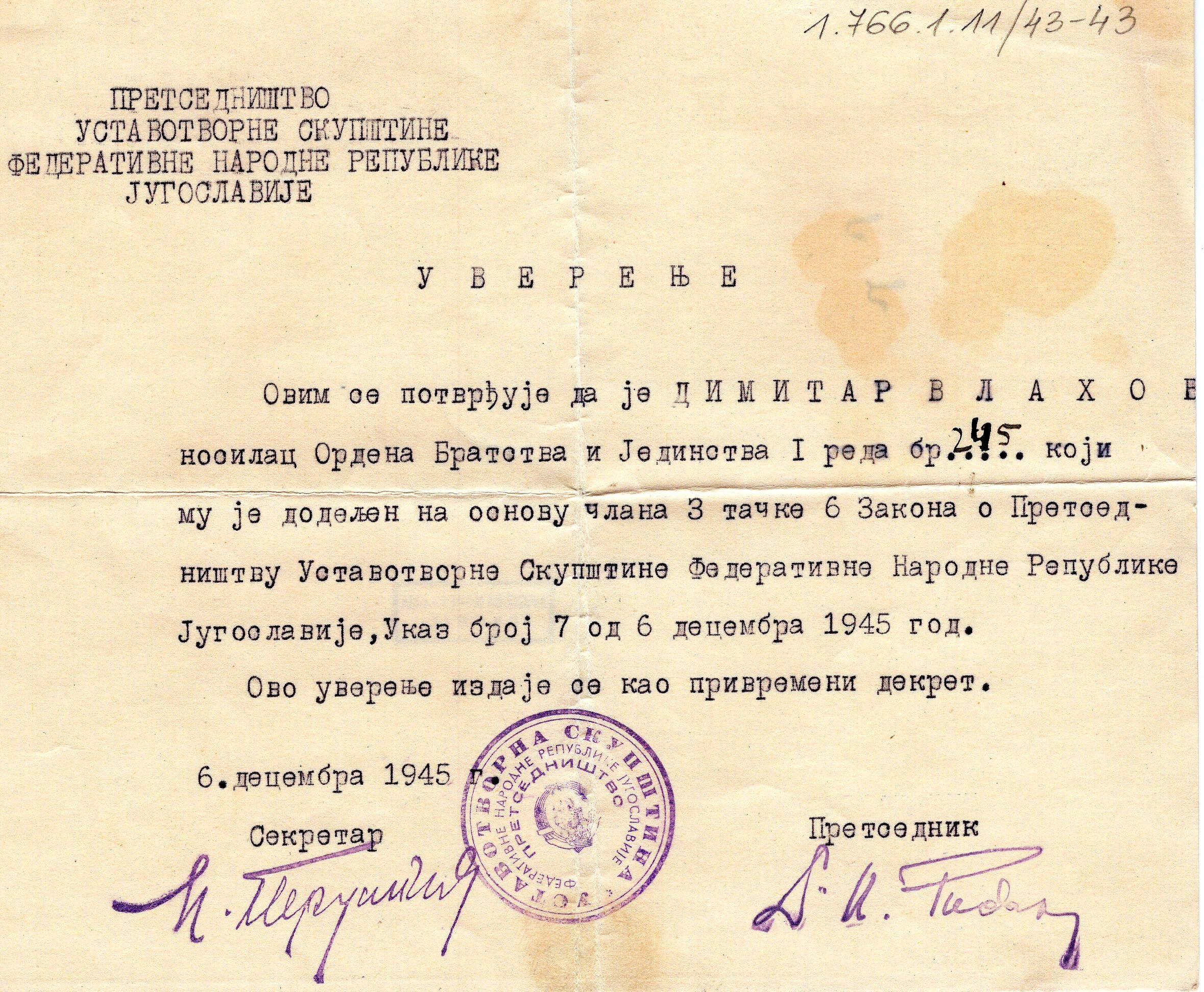 A decision of the Presidency of Yugoslavia proclaiming that Vlahov is awarded the Order 'Brotherhood and unity', I order, No. 245 (Belgrade, 6 December, 1945). This media file is produced by Wikipedian in Residence in Category:Wikipedian in Residence at DARM in 2017.